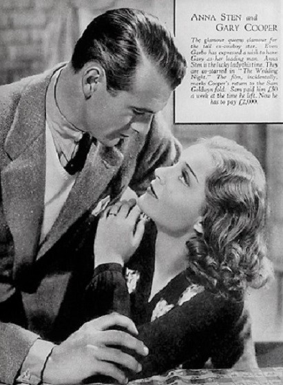 Gary Cooper e Anna Sten in "The Wedding Night"